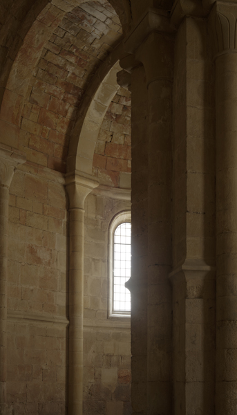 Ref: PM_061542_E_Poblet; Poblet (Vimbodi); Monestir de Poblet; Catalunya, Tarragona; Spain; Església; Cultural heritage; Cultural heritage/UNESCO World Heritage Site; Europe/Spain/Poblet; Wiki Commons; Photographer: Paul M.R. Maeyaert; © Paul M.R. Maeyaert